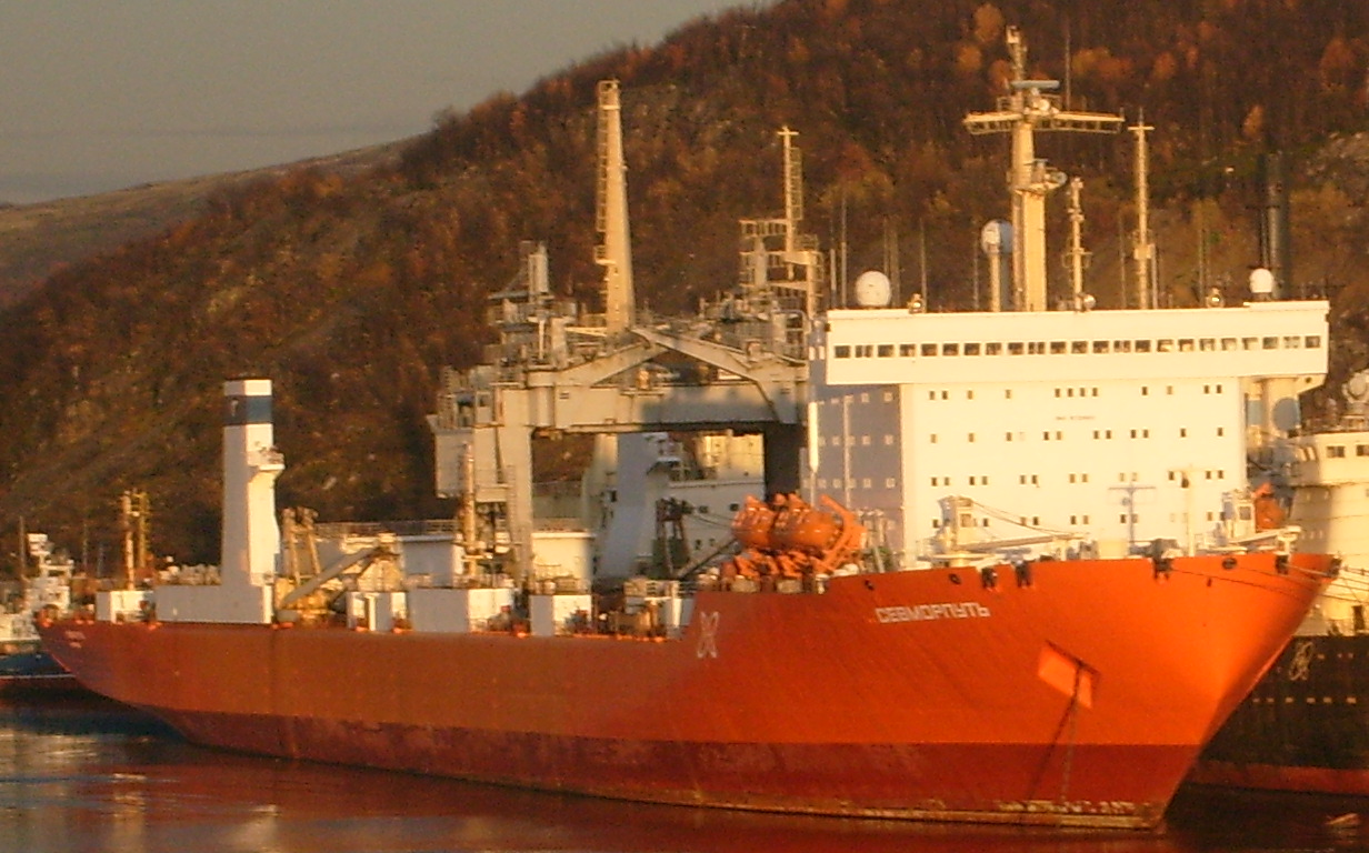 Russian nuclear-powered cargo ship Sevmorput SEVMORPUT IMO number: 8729810 Callsign: UHBY